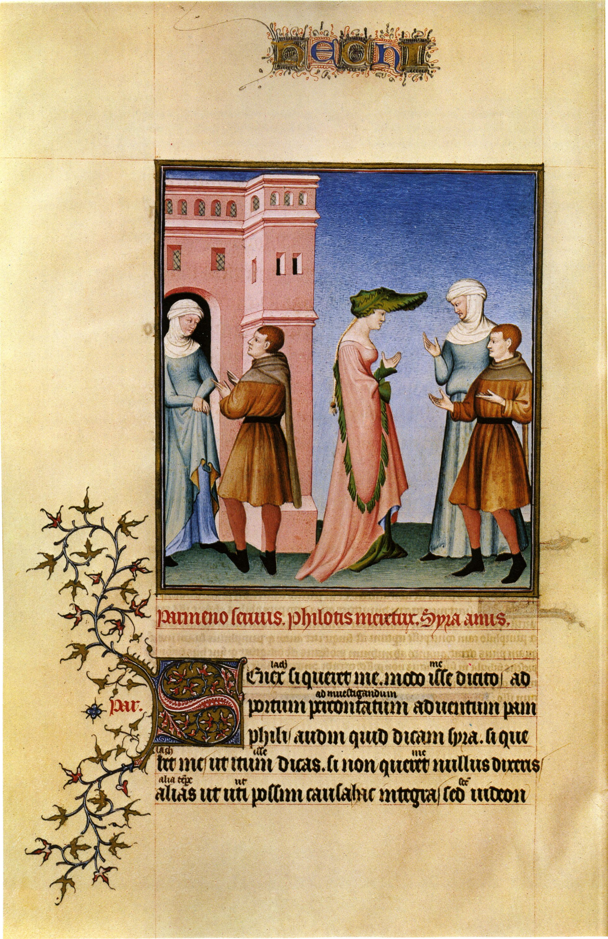 Terence, Hecyra, in ms. Paris, Bibliothèque de l’Arsenal, 664, fol. 210v.